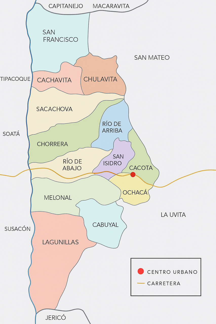 Politic map of Boavita